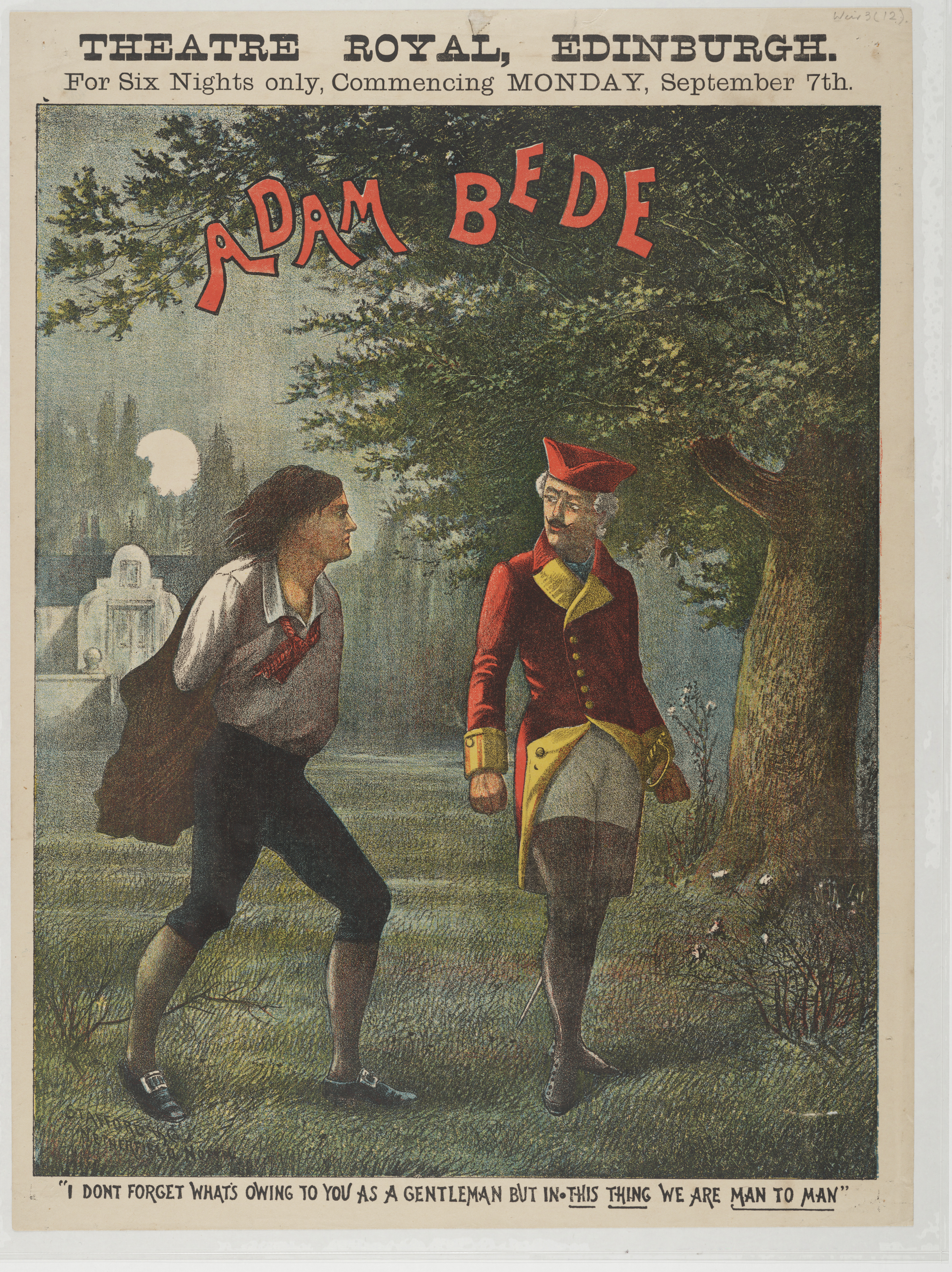 For six nights only, commencing Monday, September 7th. Caption: 'I don't forget what's owing to you as a gentleman but in this thing we are man to man'. Printed by Stafford & Co., Netherfield, Nott[ingham].